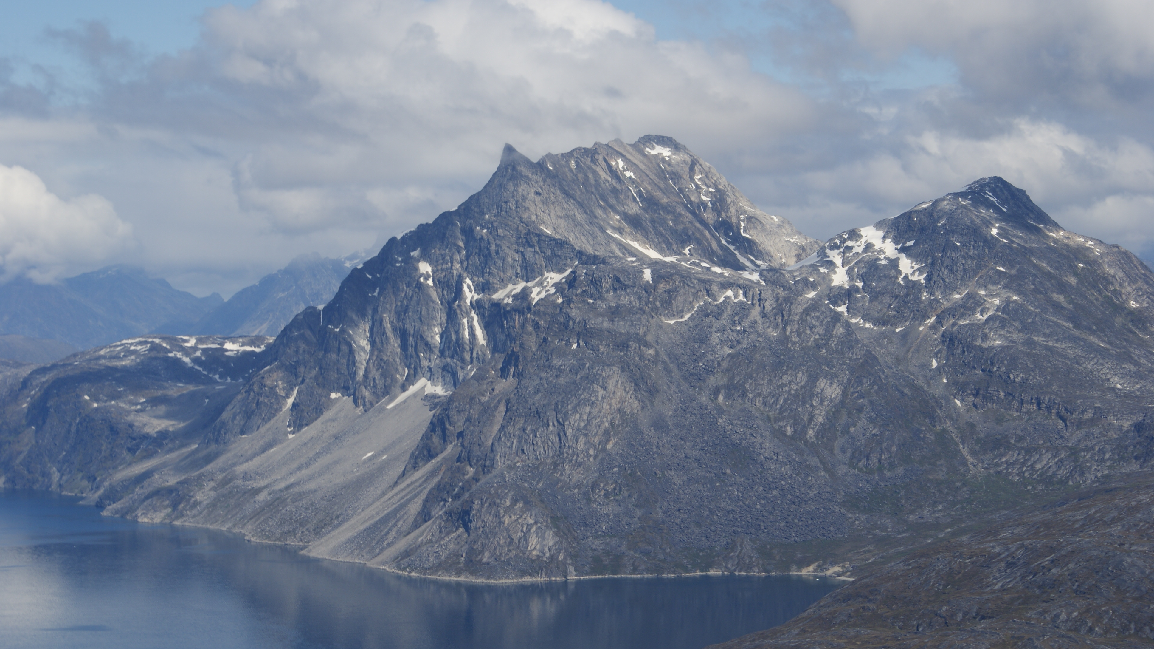 Aerial view of Sermitsiaq, a mountain topping an island in Nuup Kangerlua, a long fjord in the Sermersooq Municipality in southwestern Greenland. Photographed from the Air Greenland de Havilland Canada Dash-7 during the Sisimiut-Nuuk flight.